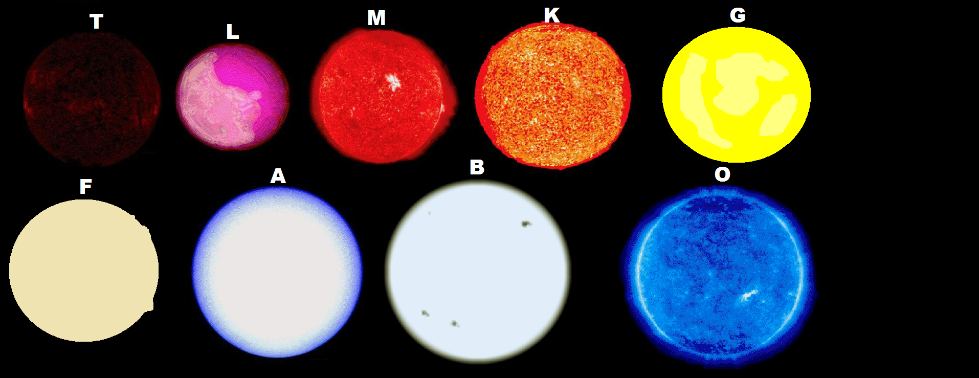 Comparrison of star types T, L, M, K, G, F, A, B, and O.